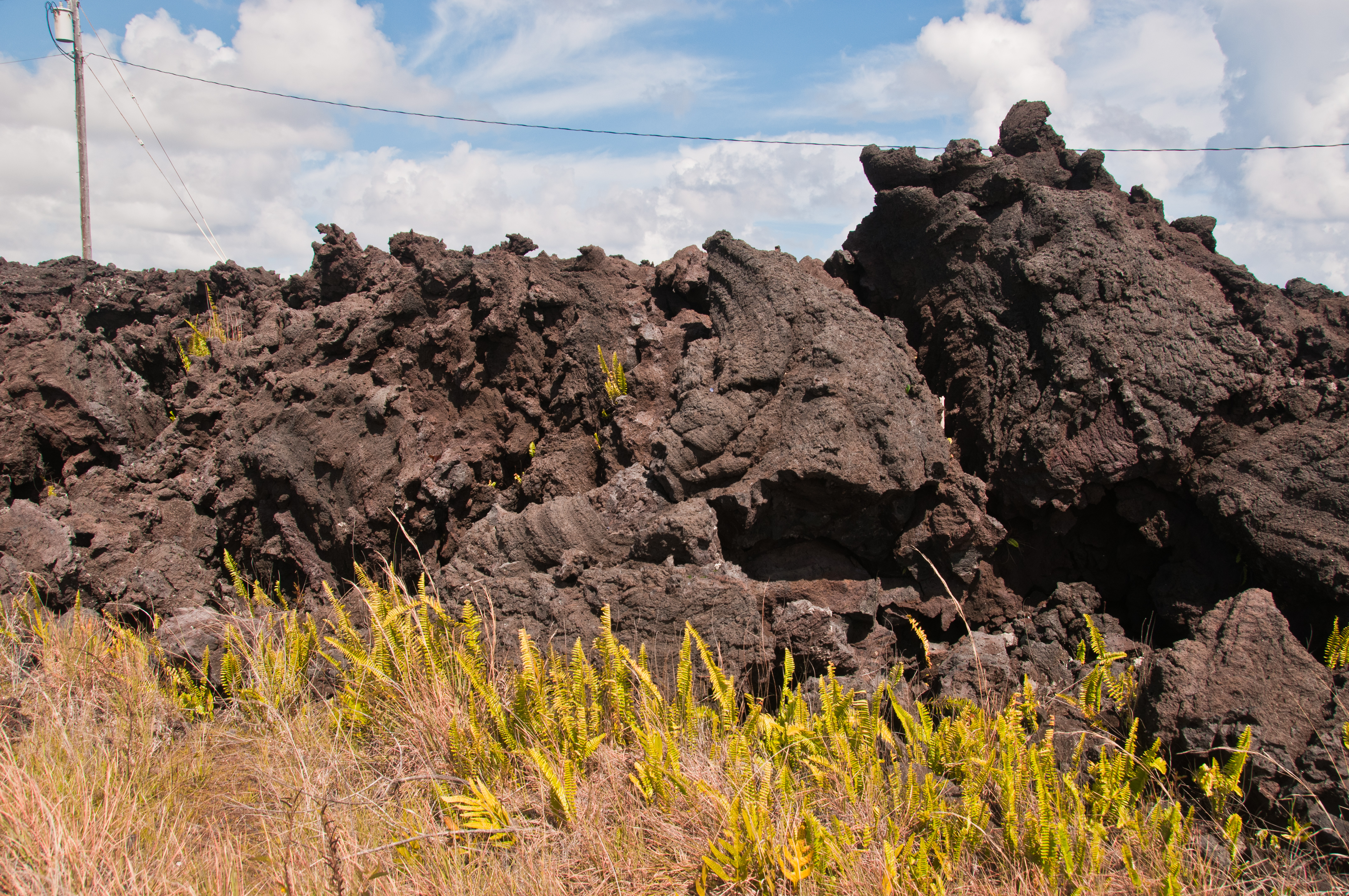 Around Kapoho (1 of 18)